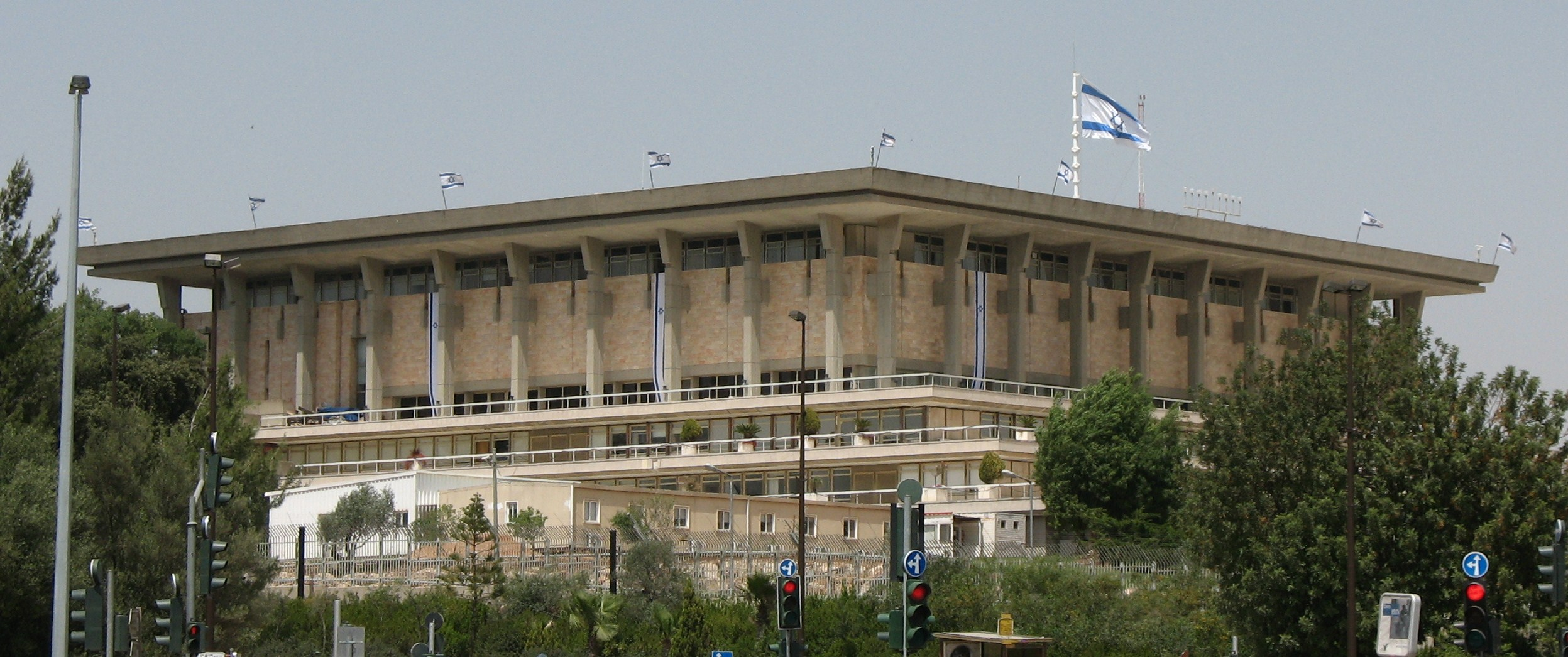 The Knesset building, home to Israel's parliament, in Jerusalem.